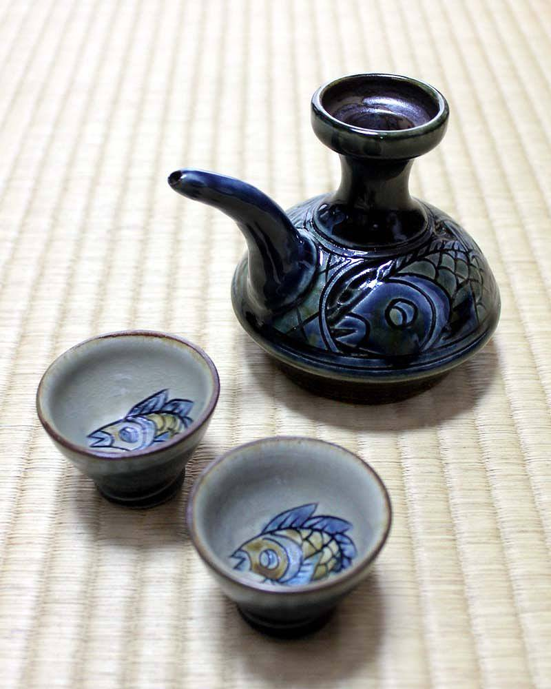 Pot and cups for Awamori,the traditional alcoholic beverage of Okinawa,Japan.